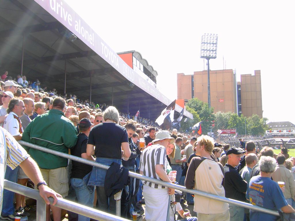 Millerntor-Stadium - homeground of the football club FC St. Pauli in Hamburg, Germany. View from the northern end of the back straight to the southern end of the back straight. Photo taken by Mghamburg before the third ligue match FC St. Pauli vs. SV Werder Bremen II, 19th August 2006 (Attendance: 16 400).